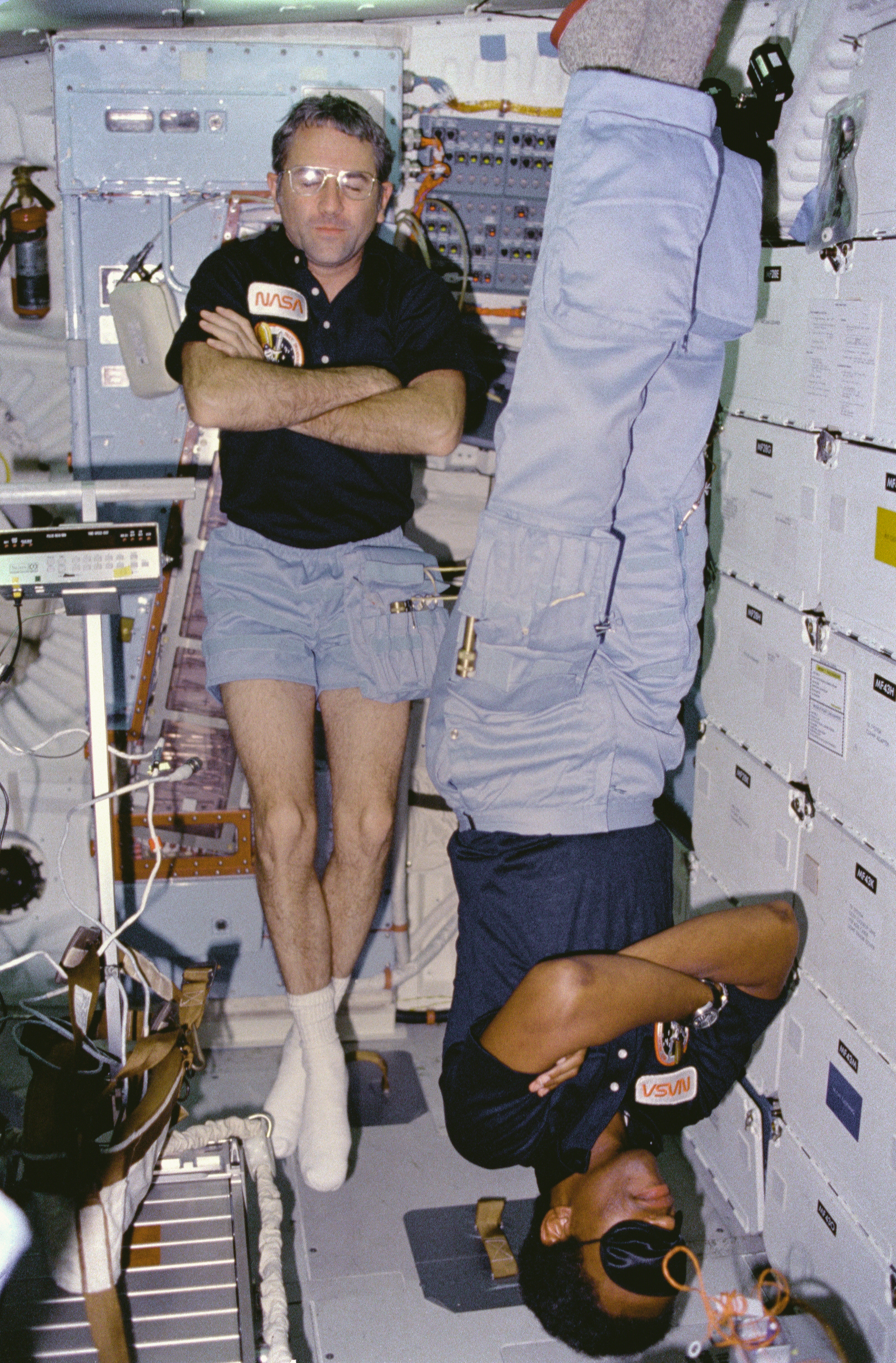 On Challenger's middeck, Commander Richard "Dick" Truly and Mission Specialist (MS) Guion Bluford sleep in front of forward lockers and port side wall. Truly sleeps with his head at the ceiling and his feet to the floor. Bluford, wearing sleep mask (blindfold), is oriented with the top of his head at the floor and his feet on the ceiling.